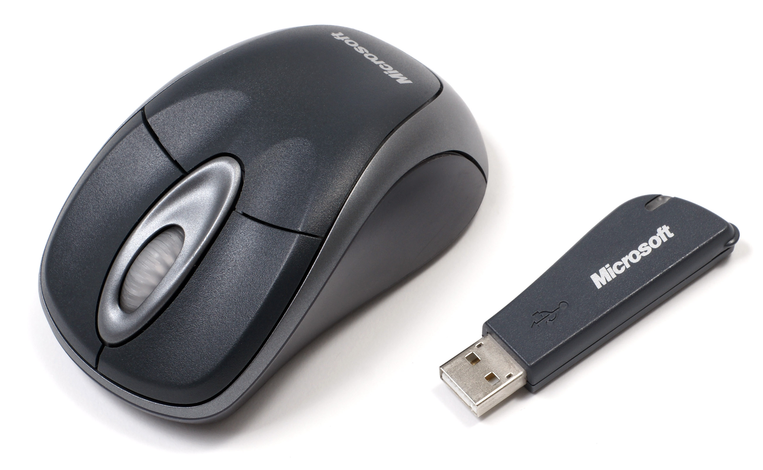 A wireless notebook-sized mouse made by Microsoft.